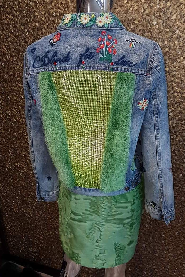 Jacket, denim, mink and Swakara. Martina Greggers, Stuhr, Germany, 2018. Weitere Jacke (Ausschnitt) Weitere Jacke (Original)